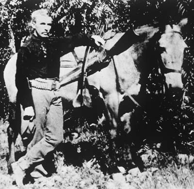 Leonard Wood, Assistant Surgeon, United States Army, awarded the Medal of Honor for actions in the Indian Wars